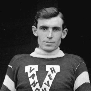 Hockey player Wilfred "Smokey" Harris of the Vancouver Millionaires club. The picture is a crop out of a larger team photo taken in the 1913–14 PCHA season.